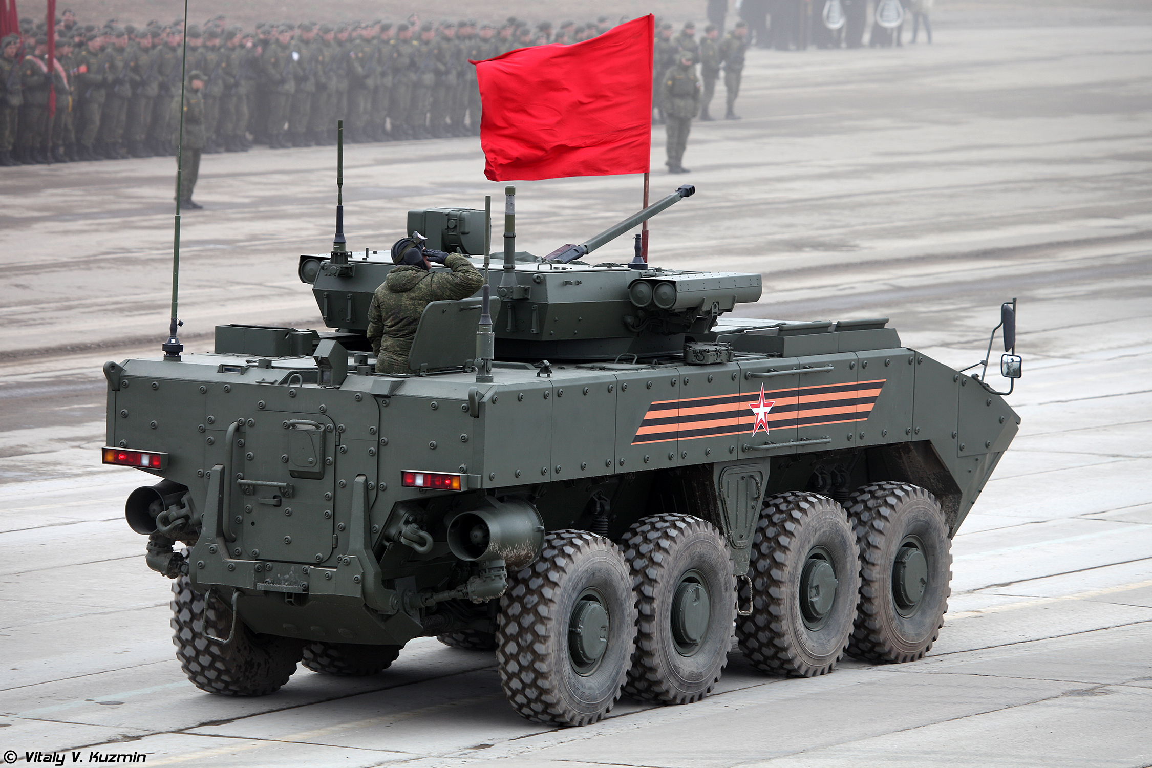 Wheeled IFV BMP-K K-17 VPK-7829 on unified wheeled combat platform Bumerang